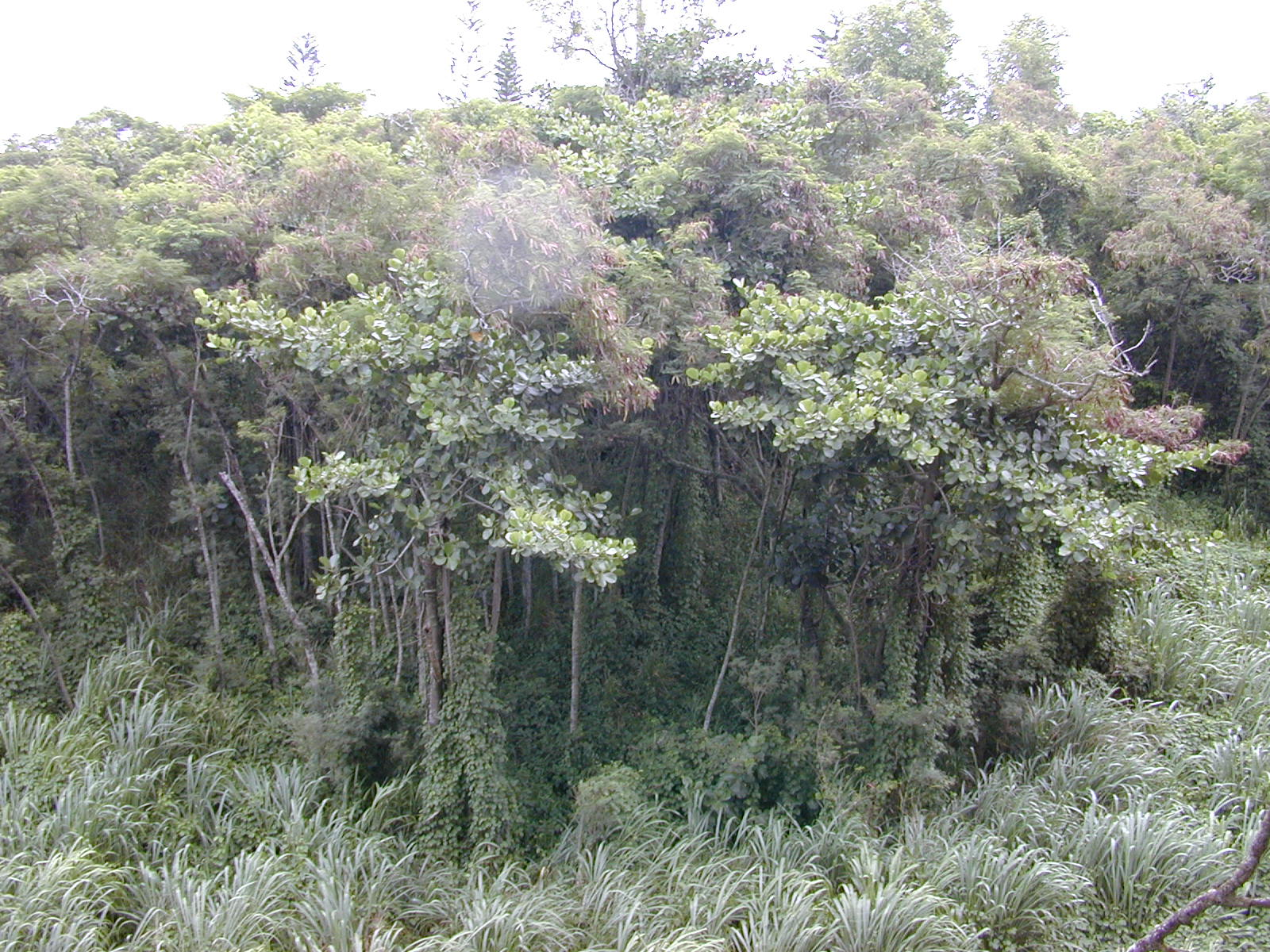 Clusia rosea (mature habit). Location: Maui, Kapalua